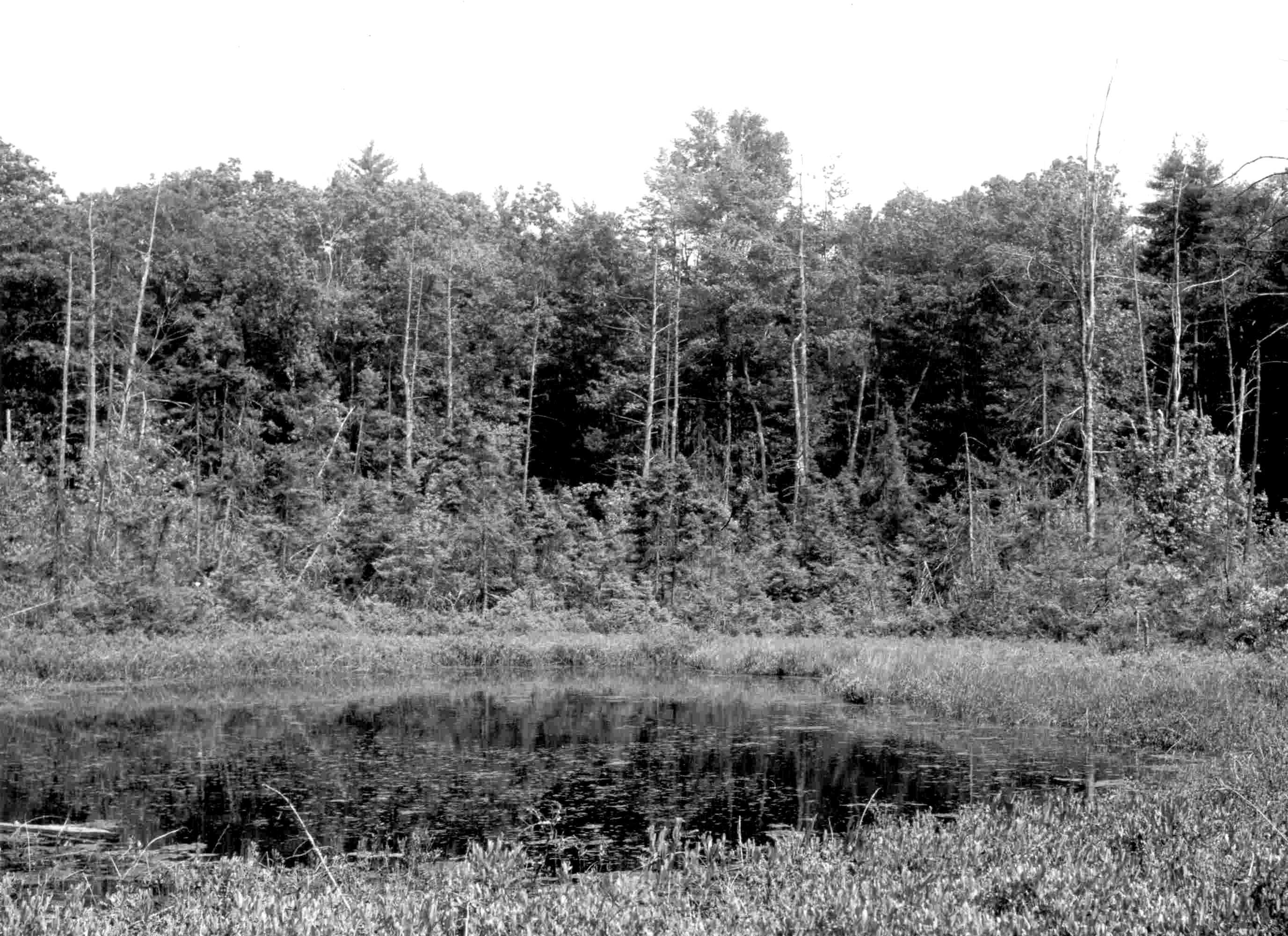 Spruce Hole Bog near Durham.